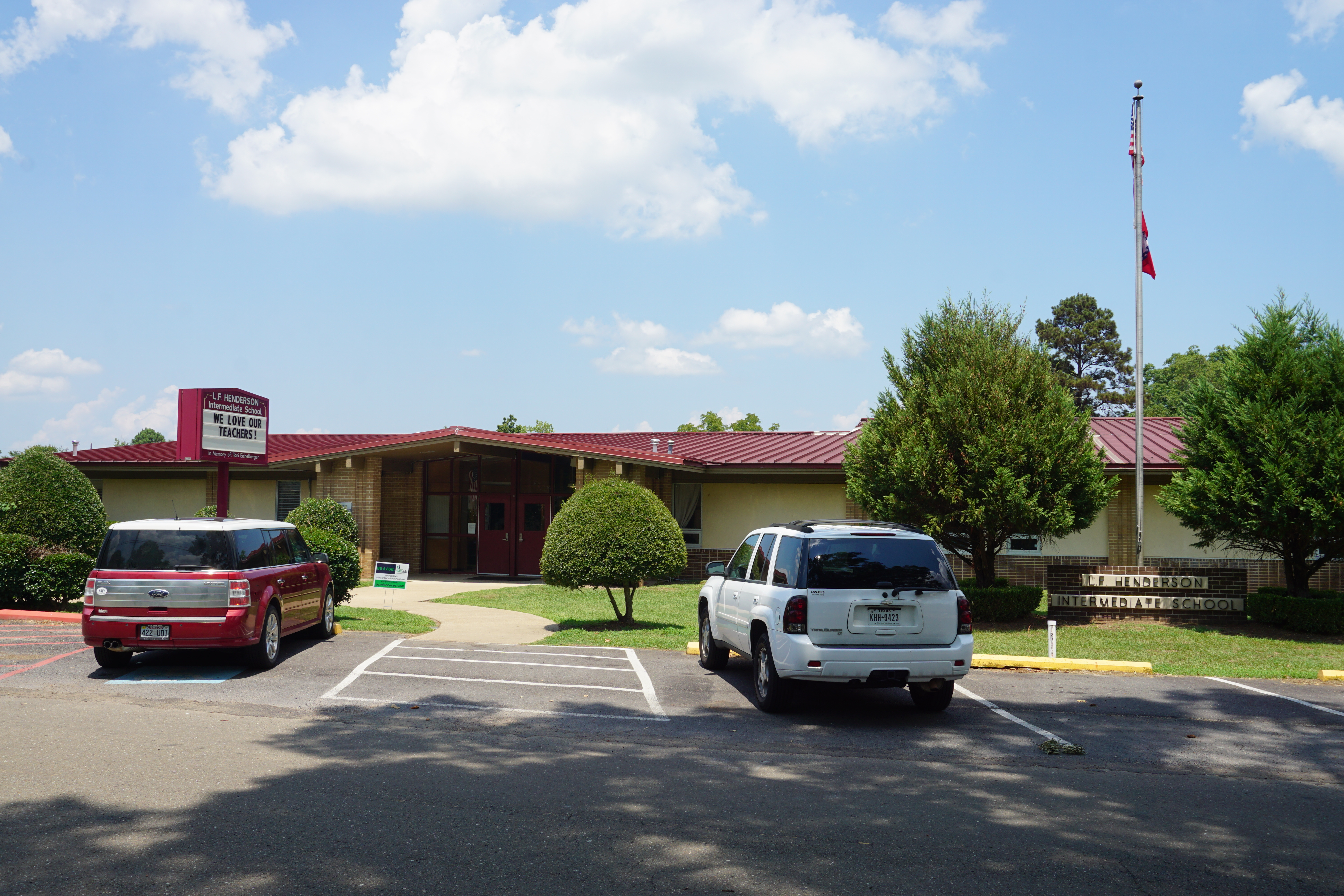 L.F. Henderson Intermediate School in Ashdown, Arkansas (United States).